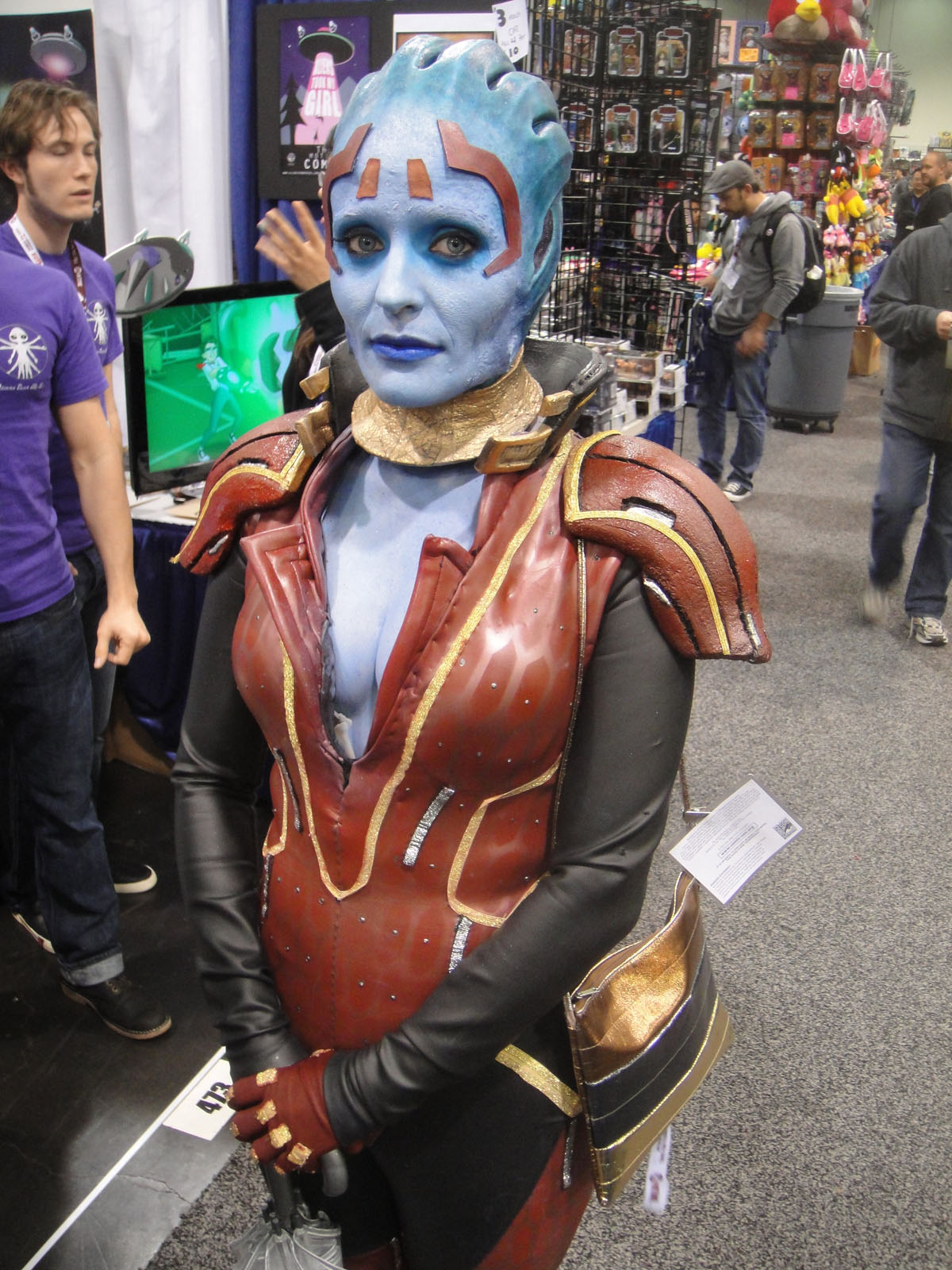 photo 2012 Pop Culture Geek taken by Doug Kline If you're interested in higher resolution versions of my images, contact me via my profile page.